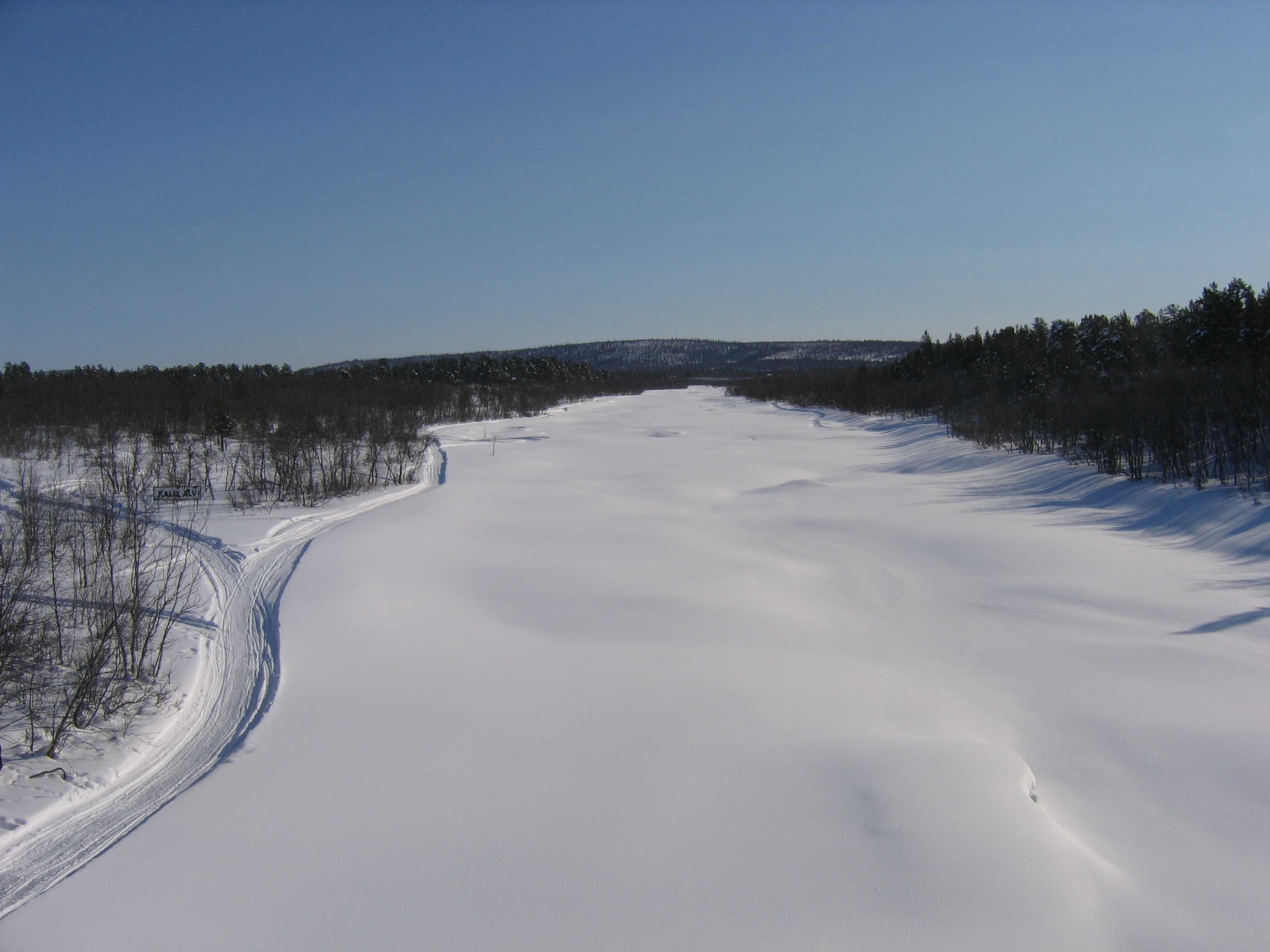 Kalix river at Kalixforsbron, near Kiruna, Sweden. Picture taken from the bridge over the river, next to the railway bridge of the Malmbanan railway line.